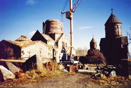 Kecharis Monastery in Armenia during halted reconstruction